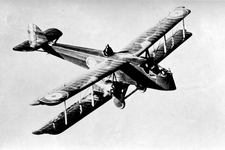 Photo of Airco D.H.11 aircraft samf4u.jpg